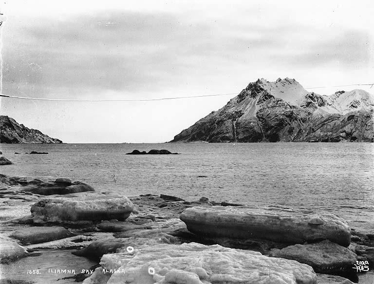 Caption on image: "Iliamna Bay Alaska Copyright 1902" Original image in Hegg Album 19, page 28 . Original photograph by Eric A. Hegg 1558; copied by Webster and Stevens 203.A Subjects (LCTGM): Bays--Alaska; Ice floes--Alaska--Iliamna Bay Subjects (LCSH): Iliamna Bay (Alaska)